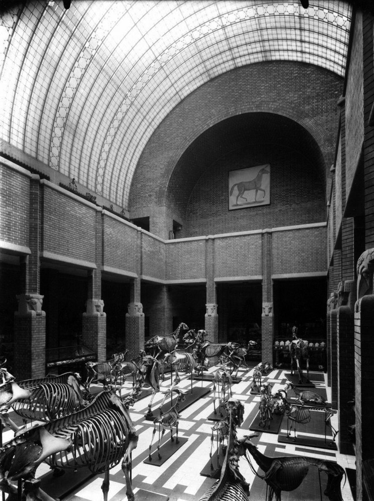 Interior of the Anatomical Institute of the National Veterinary School at Bekkerstraat 141, Utrecht, the Netherlands.